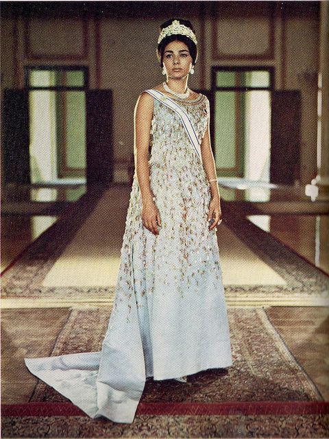 Shahbanu Farah